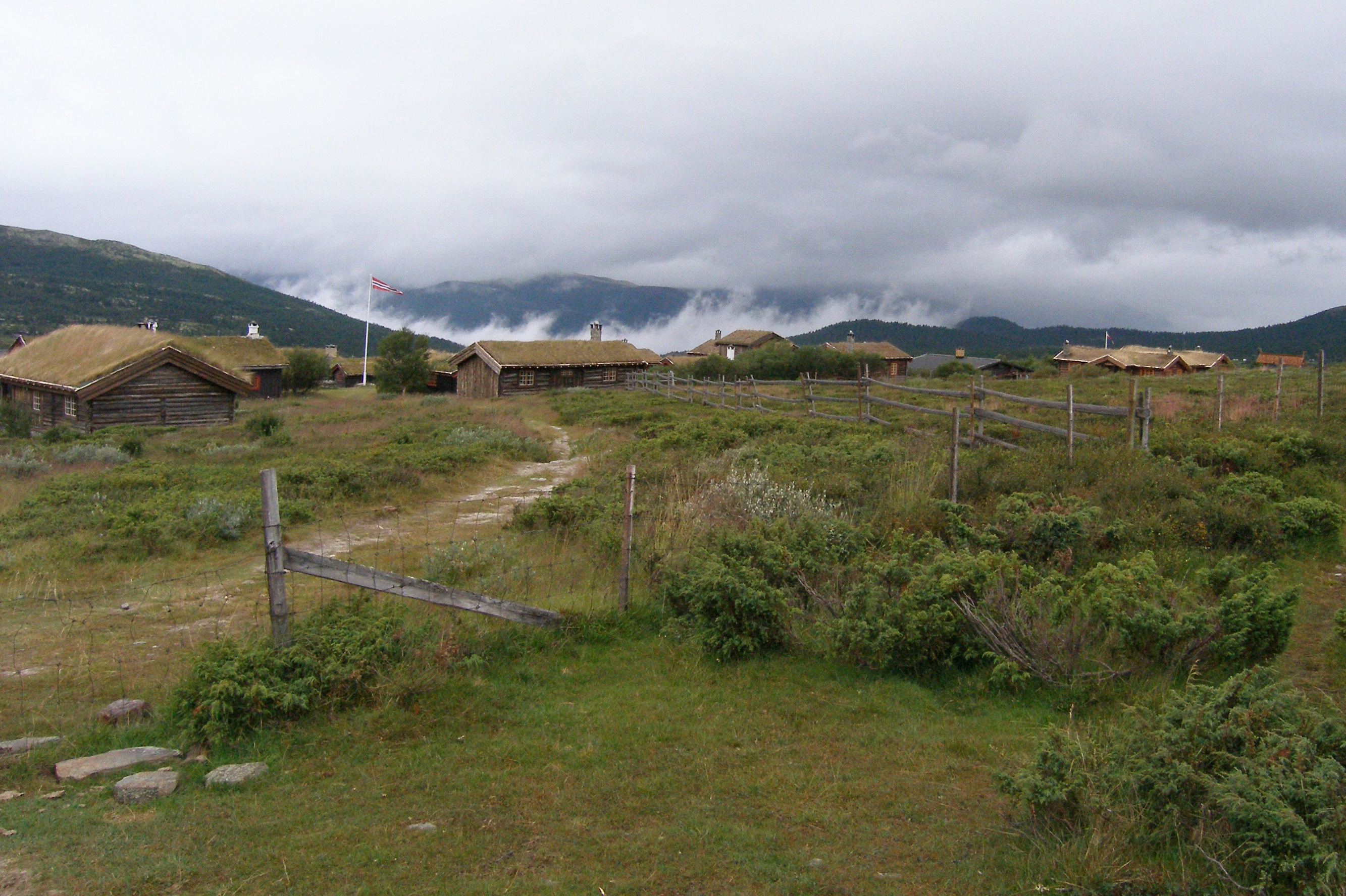 Brekkeseter, a hamlet in Høvringen, Norway. Here is an entry to the Rondane National Park.